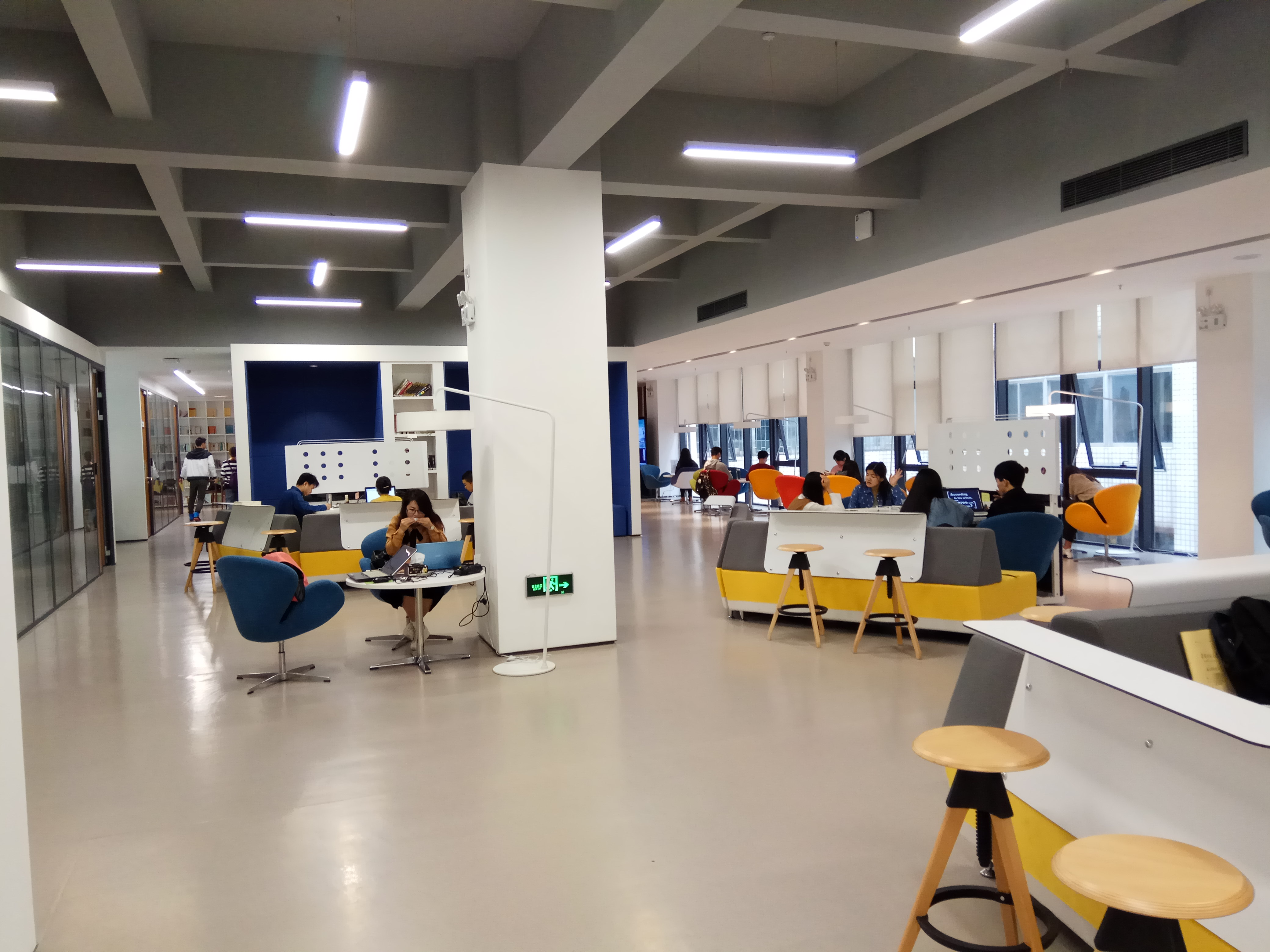 The library of South China Normal University in Shipai. 中文（中国大陆）: 华南师范大学石牌校区图书馆一楼知识共享空间。